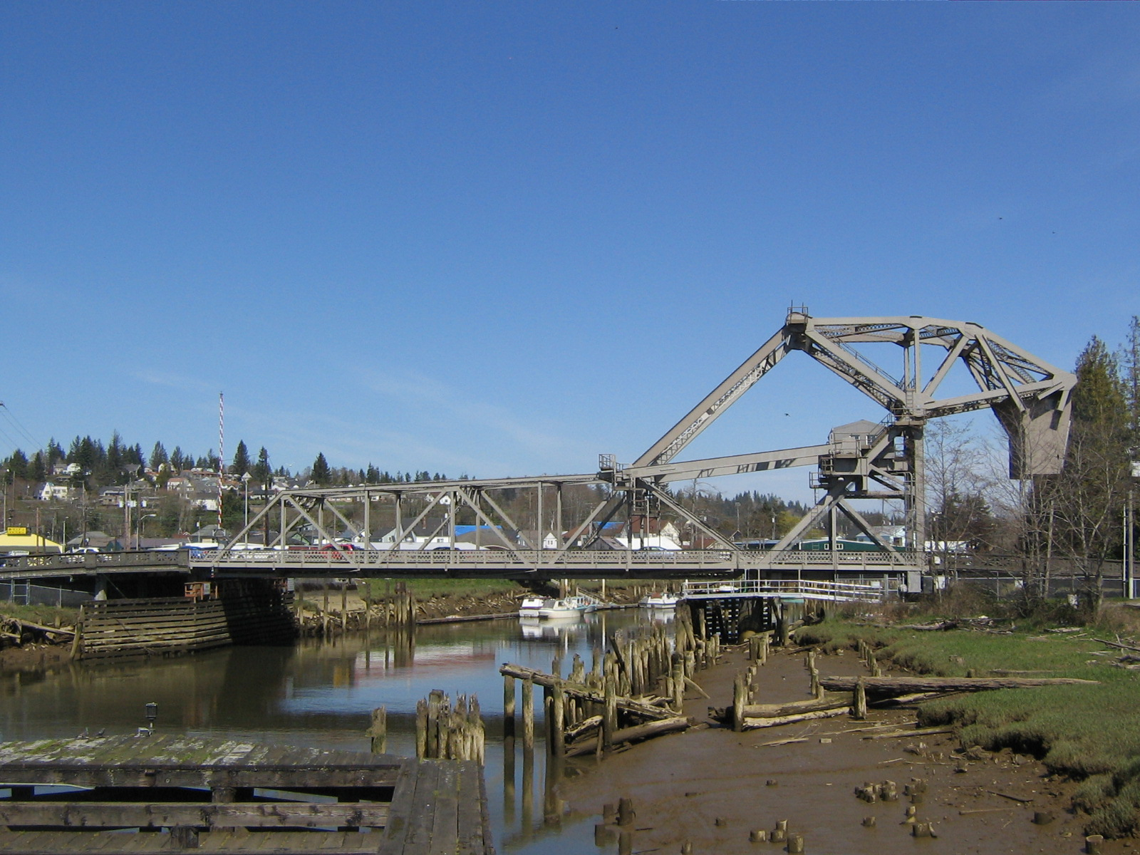 U.S. Route 12 westbound crosses this bridge over the Wishkah River into downtown Aberdeen. The Wishkah Street Bridge is a single-leaf bascule bridge. (Route 12 eastbound uses a different bridge, on Heron Street.) This photo is taken from the Heron Street Bridge, whose central pivot pier is in the foreground.)